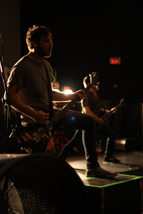 Inhale Exhale performing at the Murray Hill Theater in Jacksonville Florida on June 15 2010